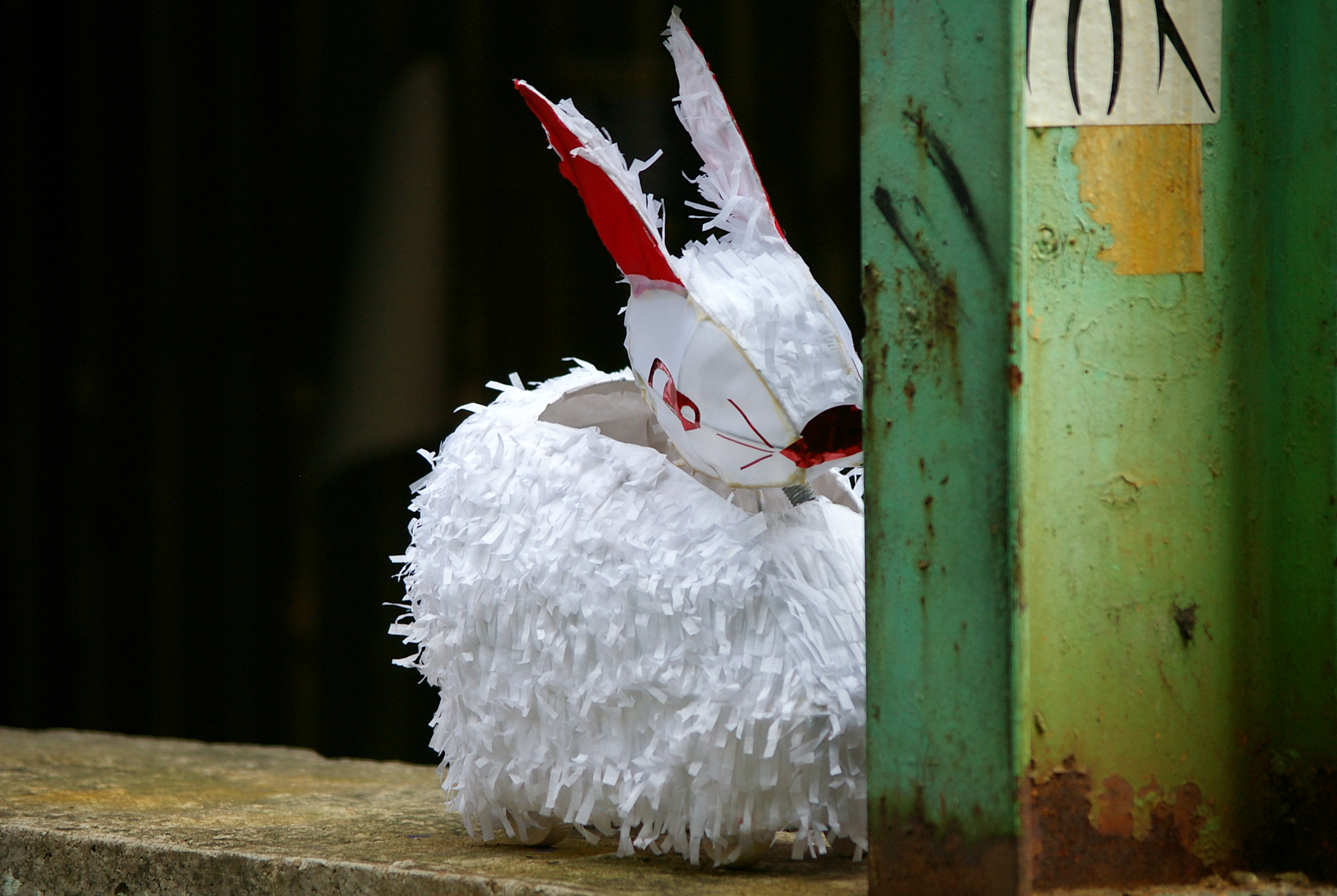 Rabbit spotted on the street of Hong Kong during Mid-Autumn Festival